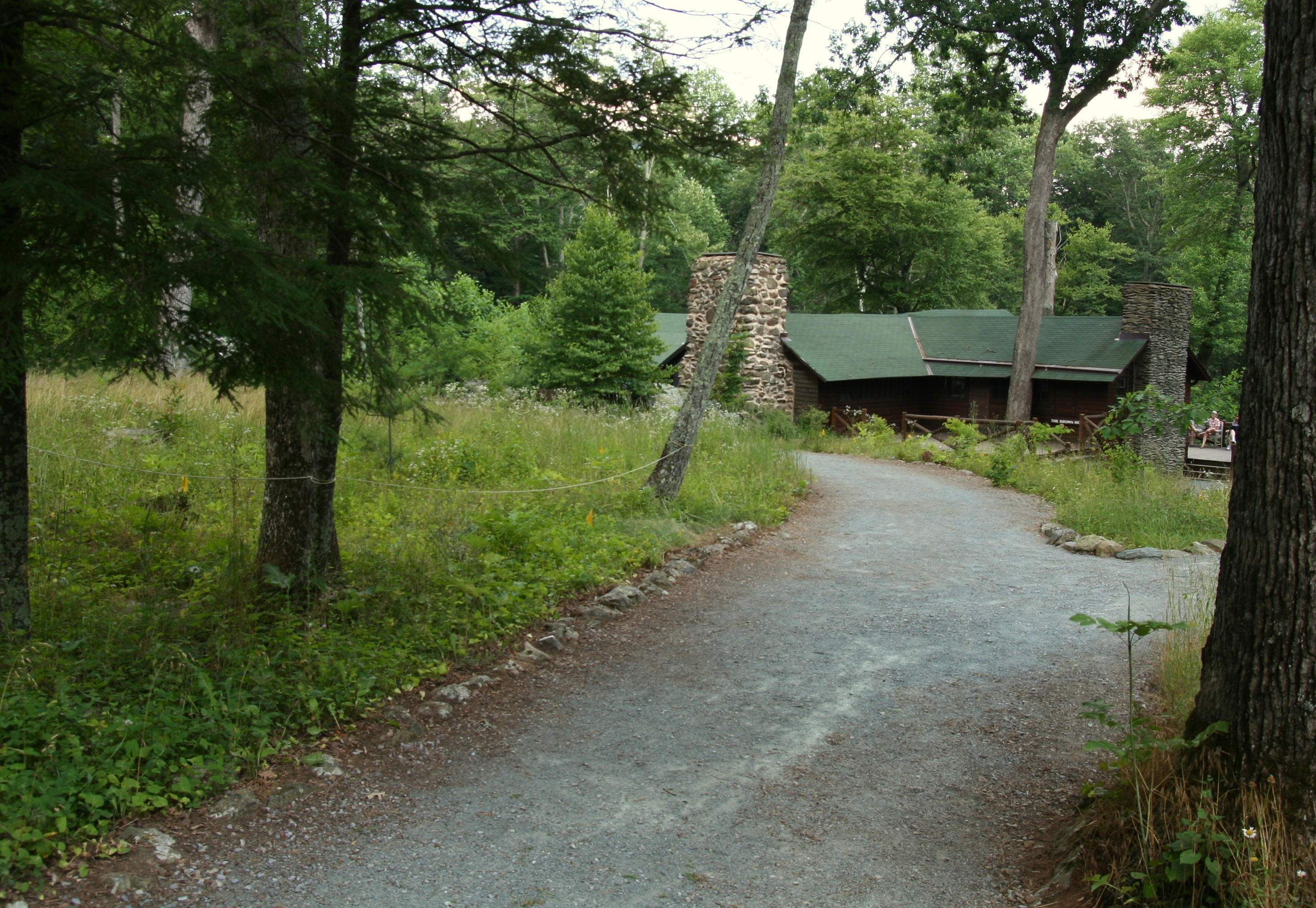 View down path toward Presidential Cottage at Rapidan Camp, July 2007.